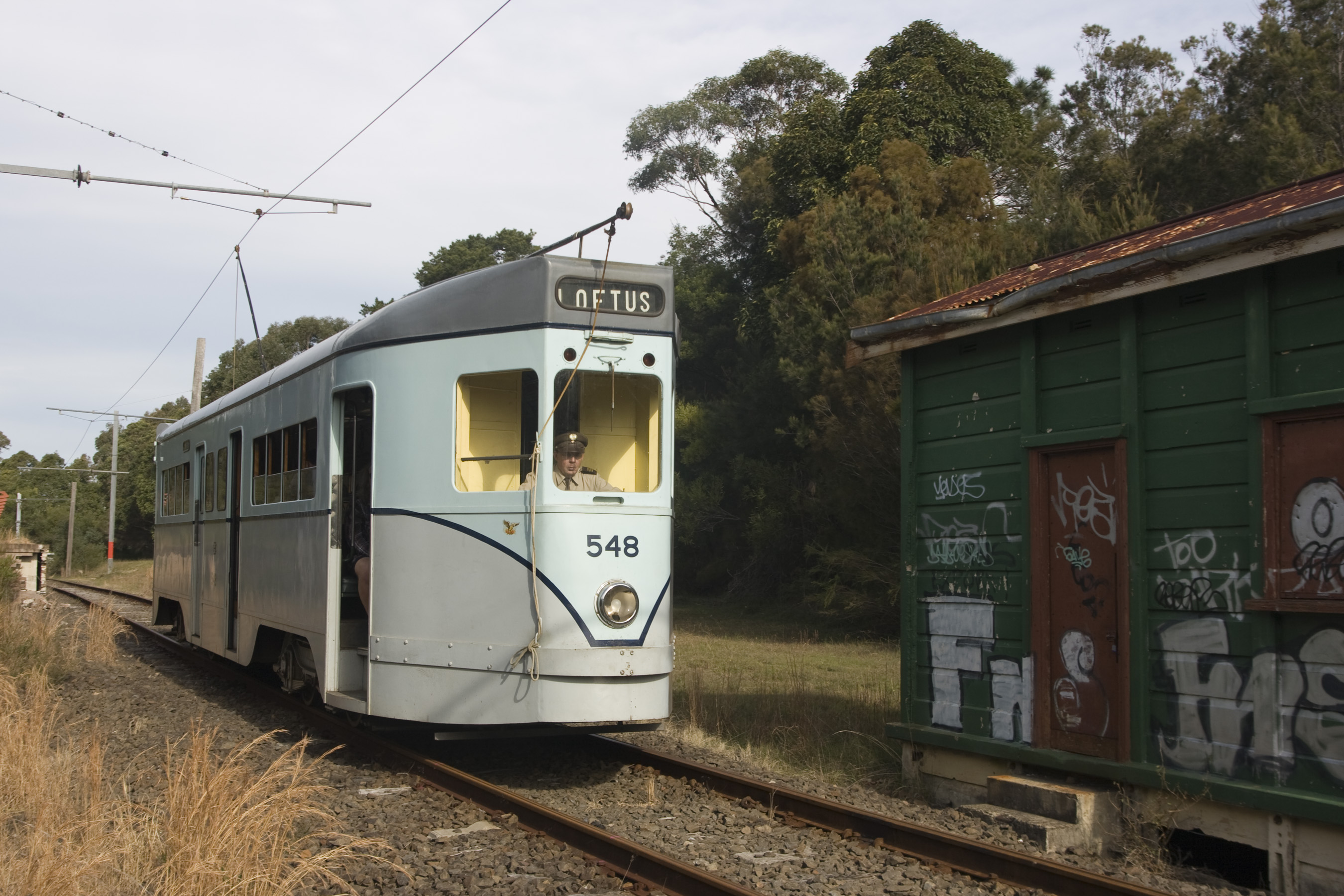 Historical tram at Royal National Park railway station